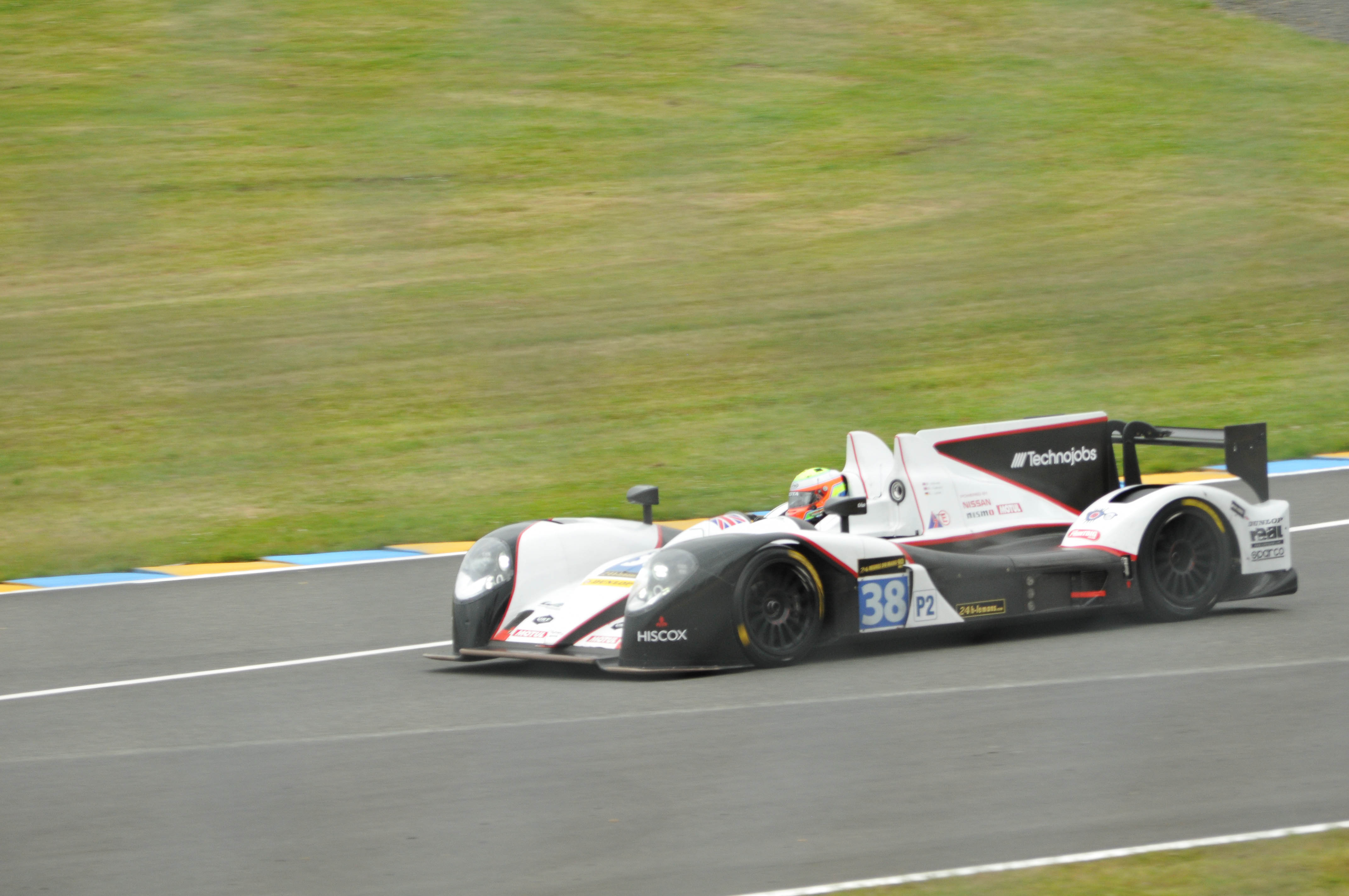 Le Mans 2013 (131 of 631)